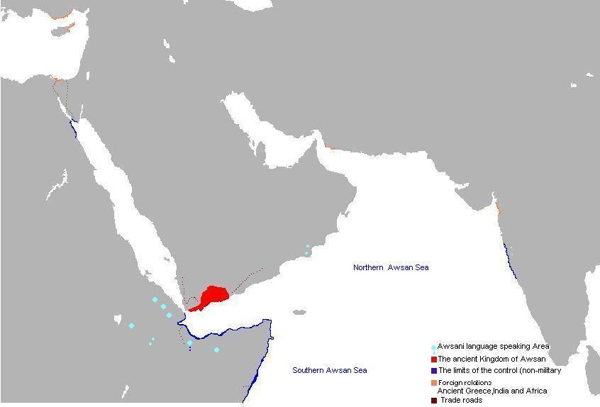 areas of the kingdom